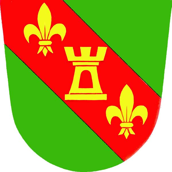 Municipal coat of arms of Louka village, Hodonín District, Czech Republic.